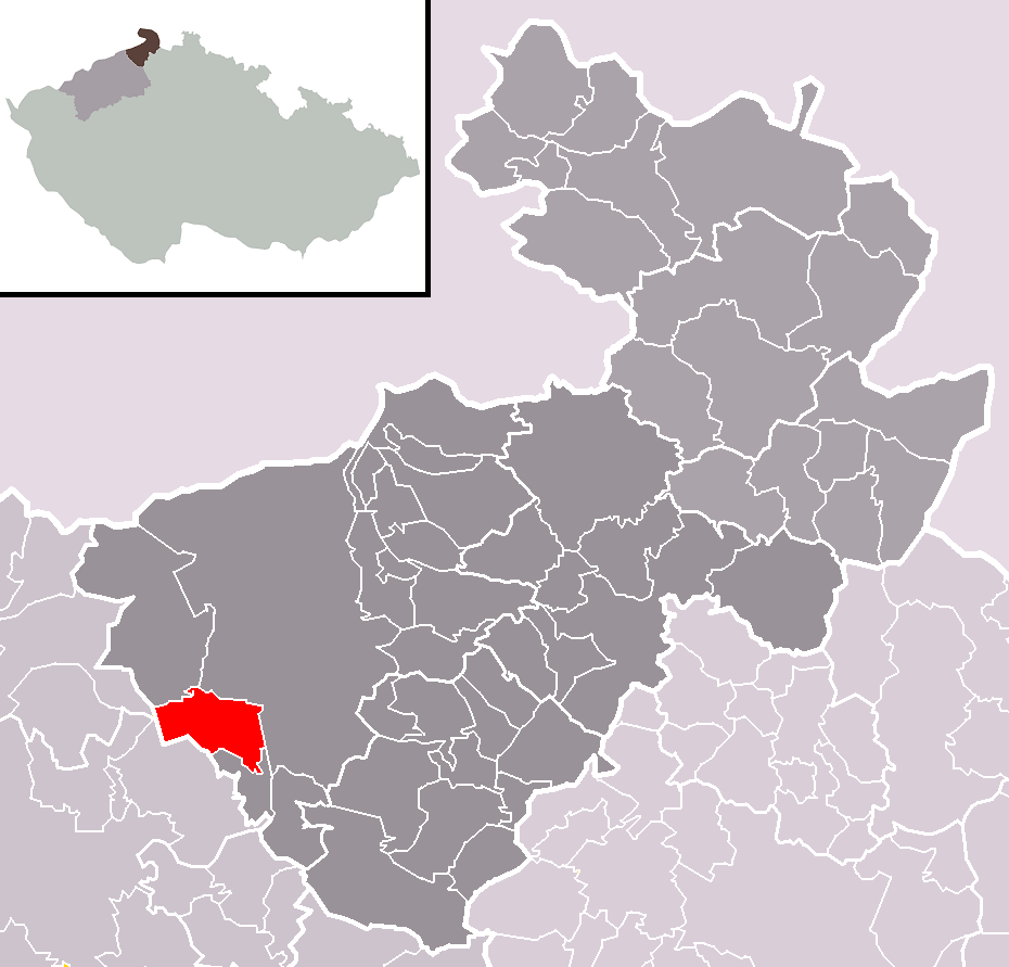 Location of Malšovice municipality within Děčín District and administrative area of Děčín as a Municipality with Extended Competence.